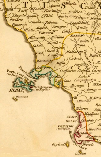 Section of a map from 1800 showing the Principality of Piombino and the State of the Presidi, which belonged to the Kingdom of Naples. Control over the mineral-rich island of Elba was divided between Tuscany, Piombino and the State of the Presidi (Porto Longone). Map of the Grand Duchy of Tuscany and the Papal States published by British mapmaker Robert Wilkinson in 1800.